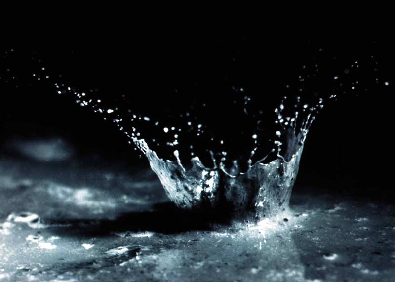 A close-up of water and soil being splashed by the impact of a single raindrop. To be used on the erosion page Other information Used on and many other websites, see e.g.